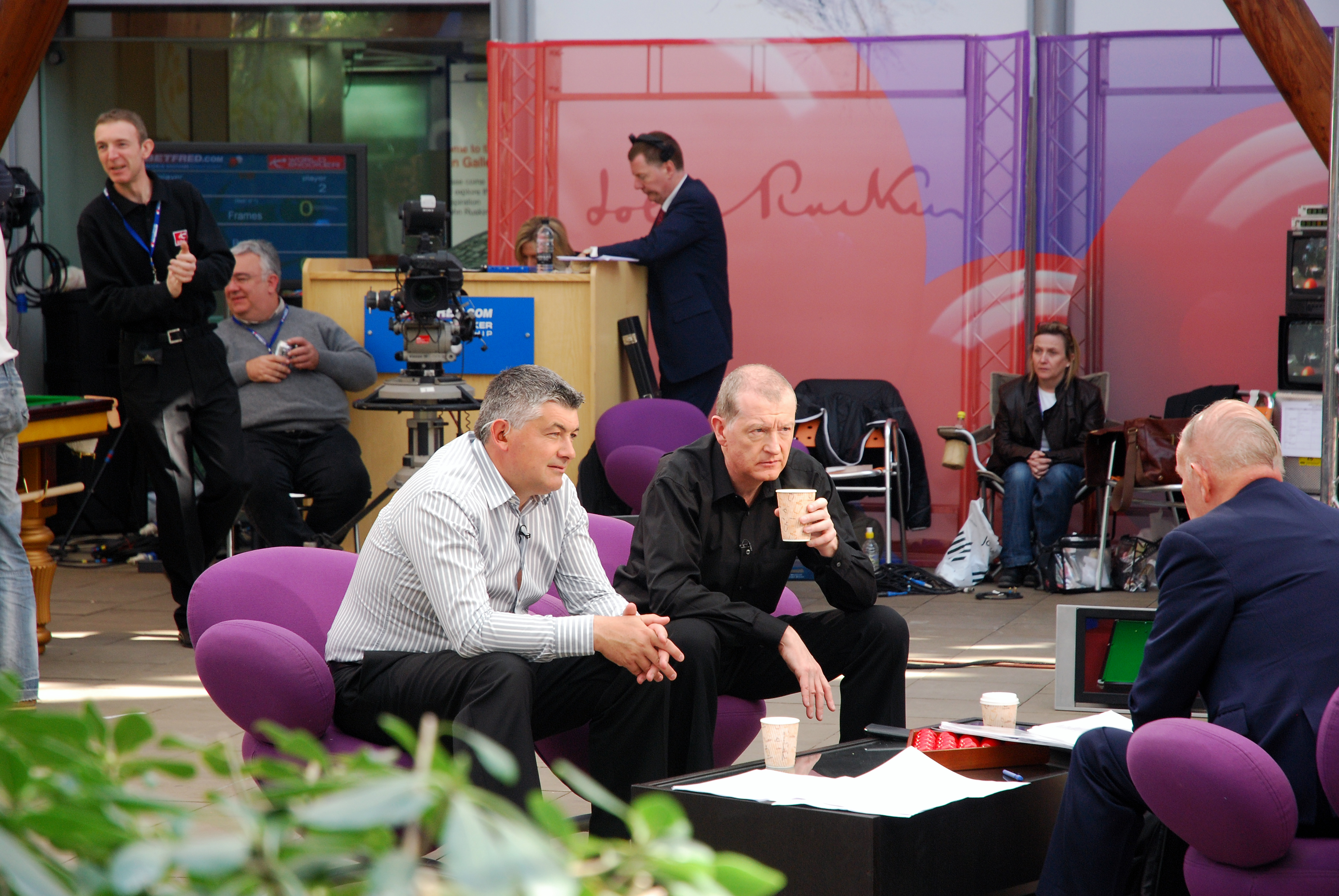 John Parrott and Steve Davis,being interviewed for the BBC(it was day 1 of the World Snooker Champs)